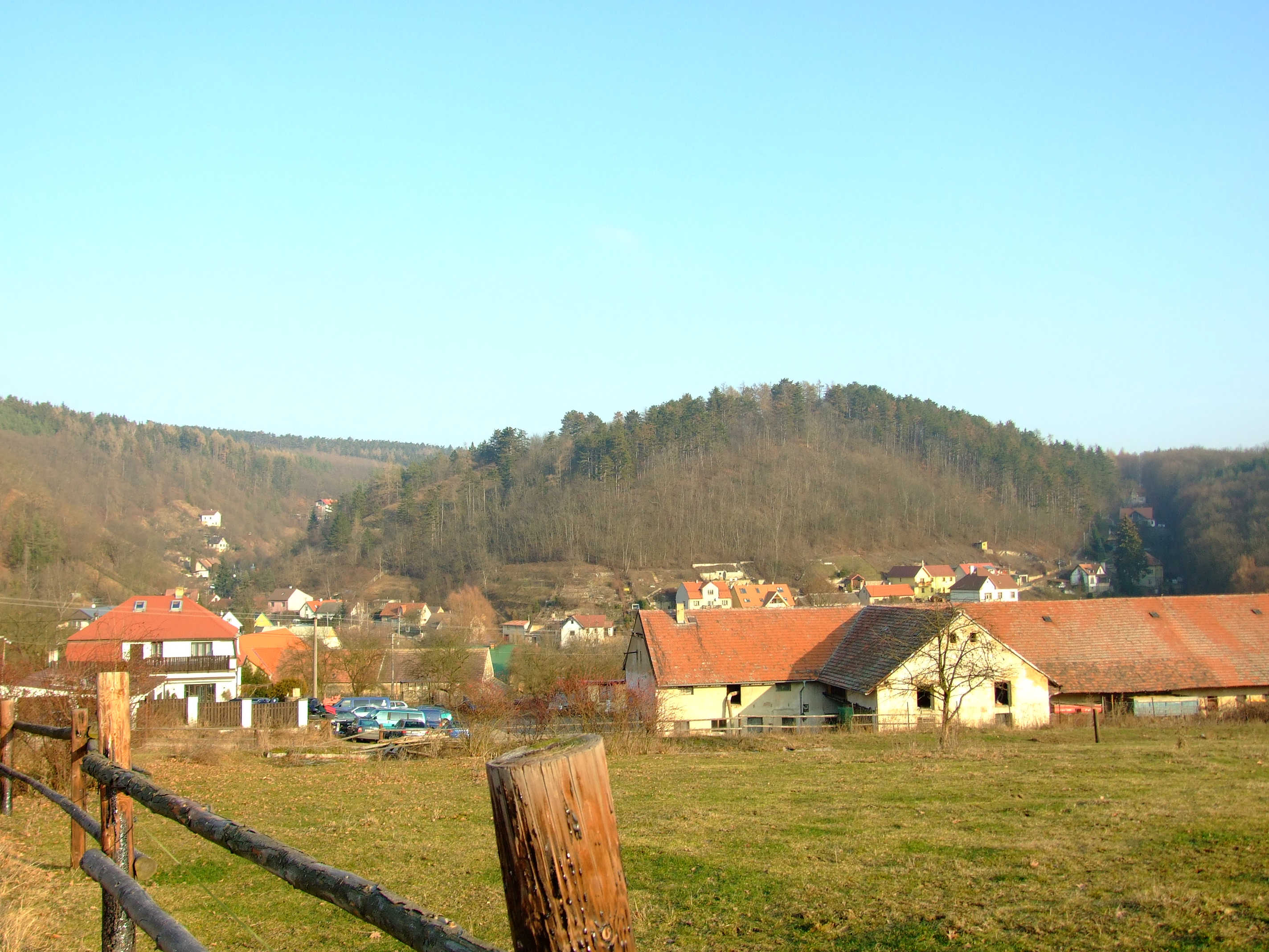 Solopisky village, under administration of Třebotov town. The village is located in Central Bohemian Region, SW from Prague, near Černošice town, Czech Republichelp